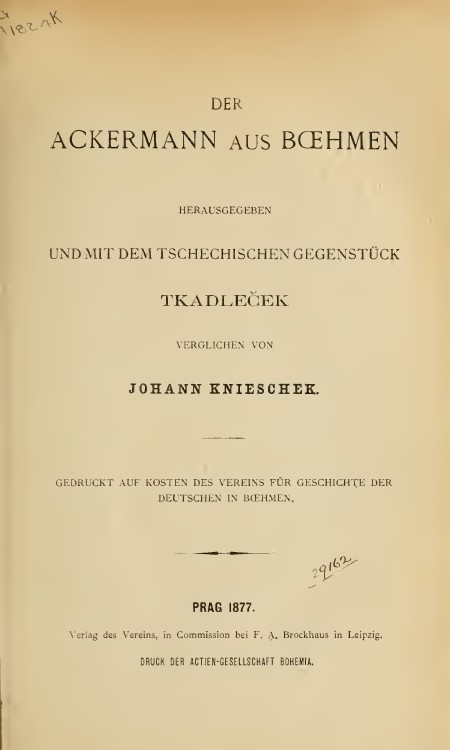 Title page